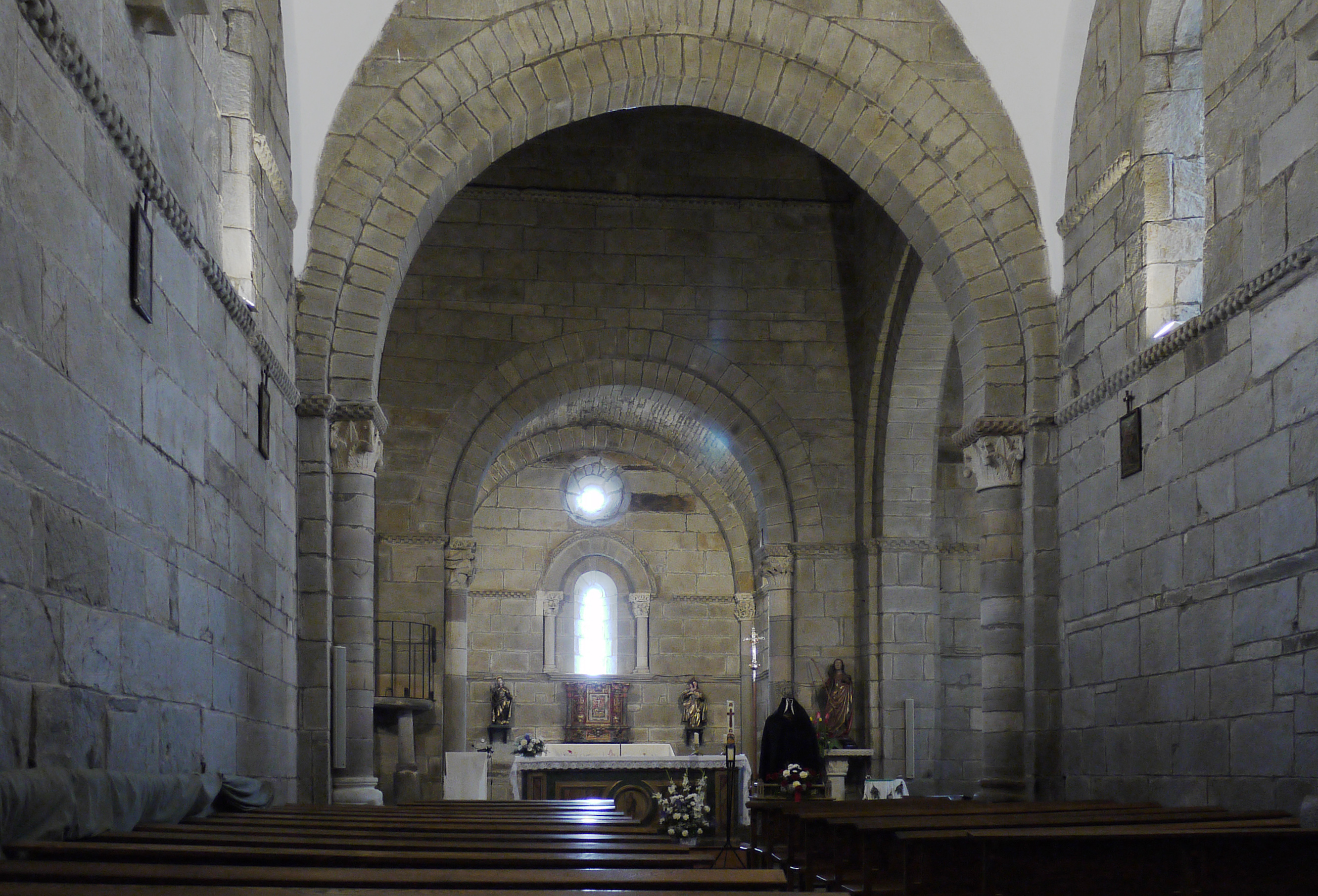 Interior, nave, of the church Santa Marta de Tera, Benavente, Zamora, Spain.